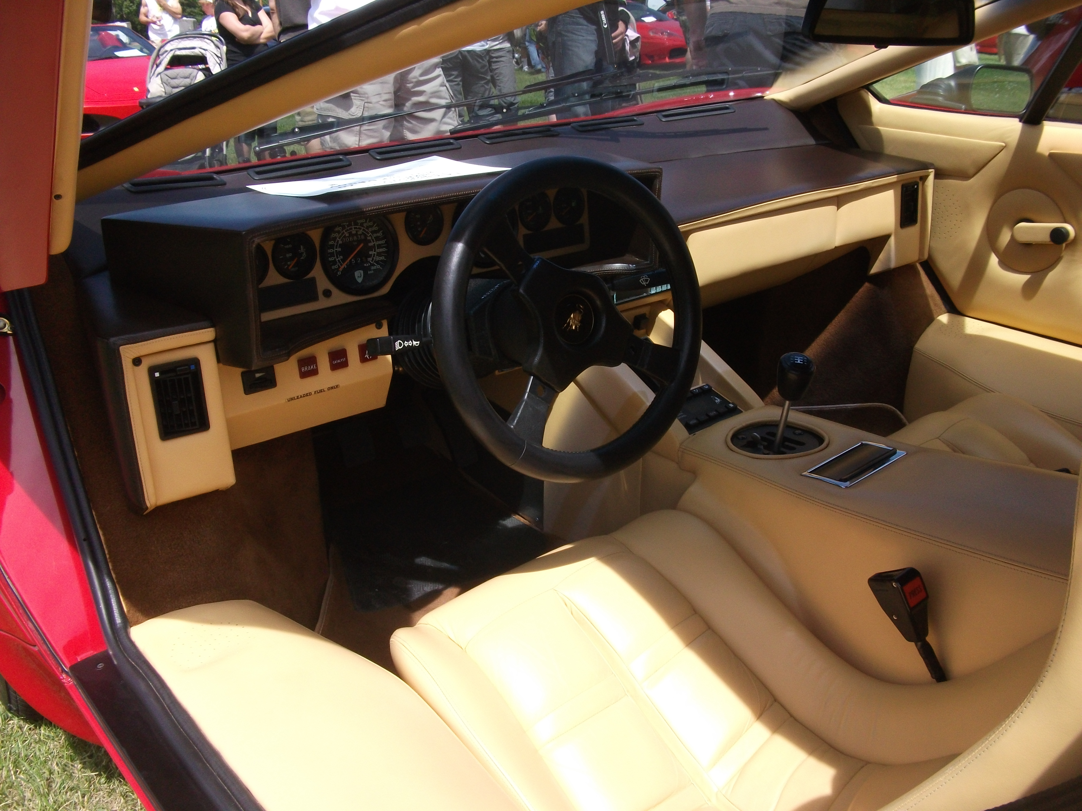 1988 Lamborghini Countach LP 5000 QV